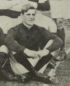 Photograph of Billy Holmes in 1912